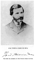 Photo of the Azorean politician and historian João Teixeira Soares de Sousa (1827-1875).